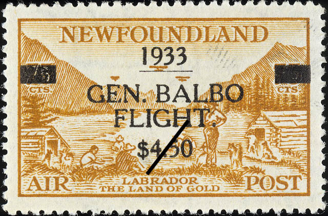 75-cent Newfoundland airmail stamps, Labrador, The Land of Gold issued 31 May 1931 and overprinted for General Balbo Airmail Flight placed on sale 24 July 1933